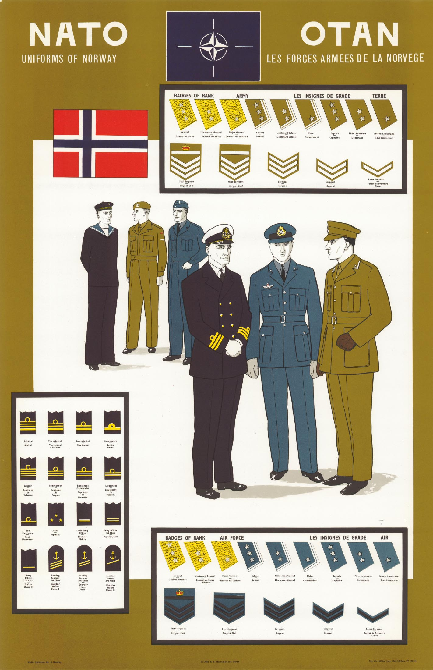 Educating NATO members about the uniforms and marking of rank in other member Forces